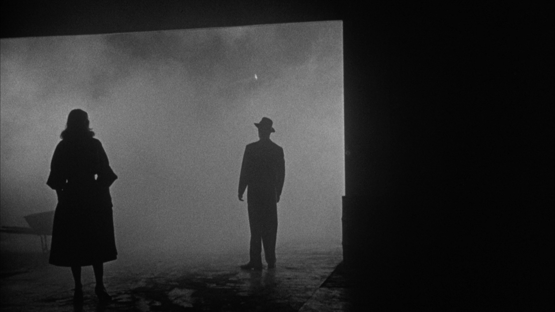 Low-resolution reproduction of screenshot from trailer for the movie Wikipedia:en:The Big Combo (1955).